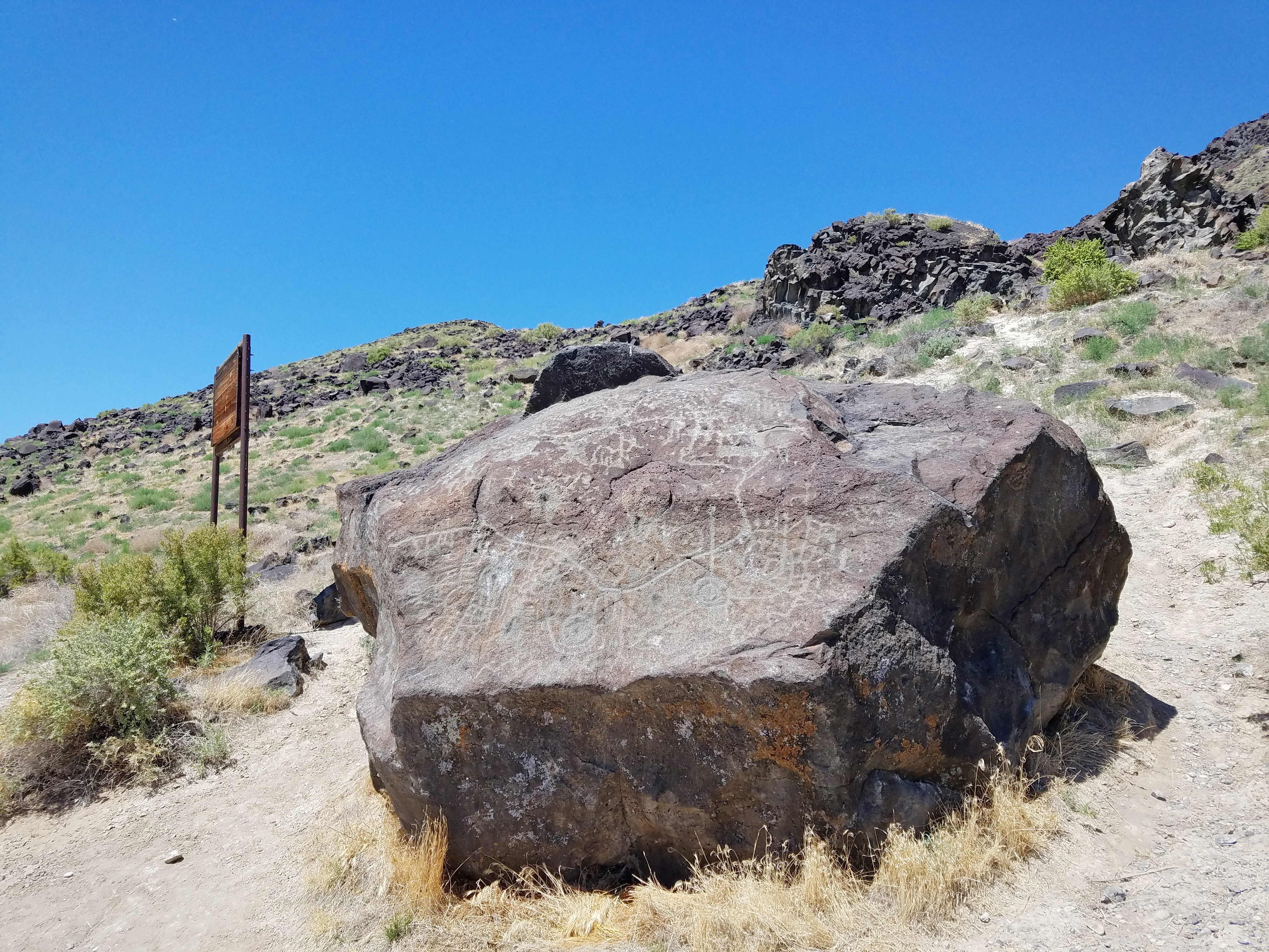 Map Rock is a petroglyph believed to be the work of Shoshone-Bannock people prior to contact with American or European people, and it may depict the surrounding Snake River region.